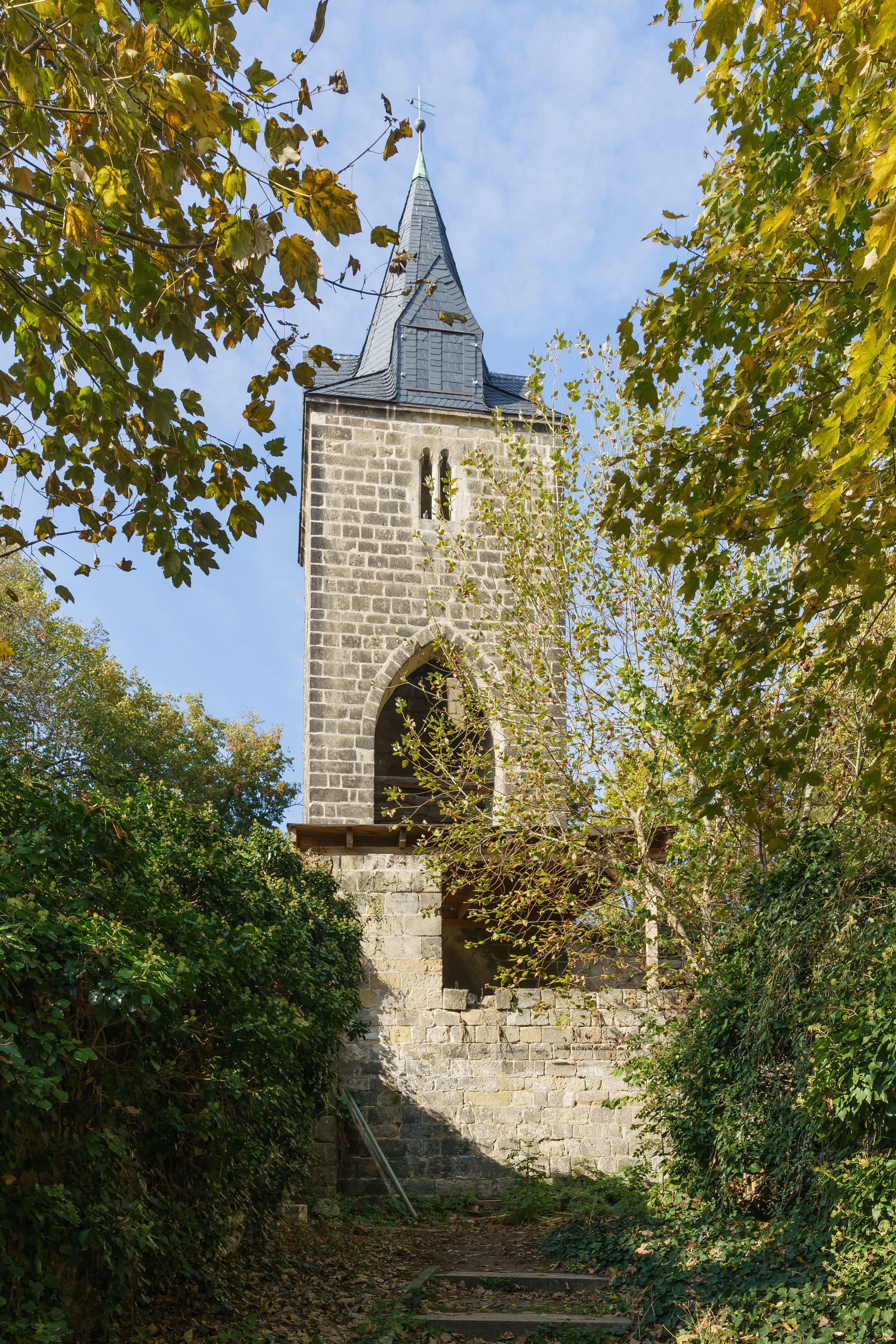 Old Town in Quedlinburg, Germany